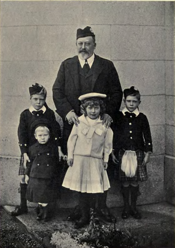 British king Edward VII and four of his grndchildren in 1902.